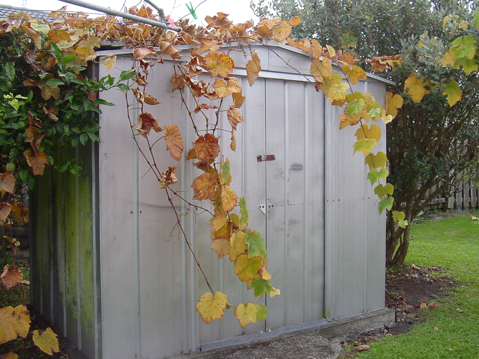 A photograph of a traditional metal garden shed, as found on a lot of modern properties.